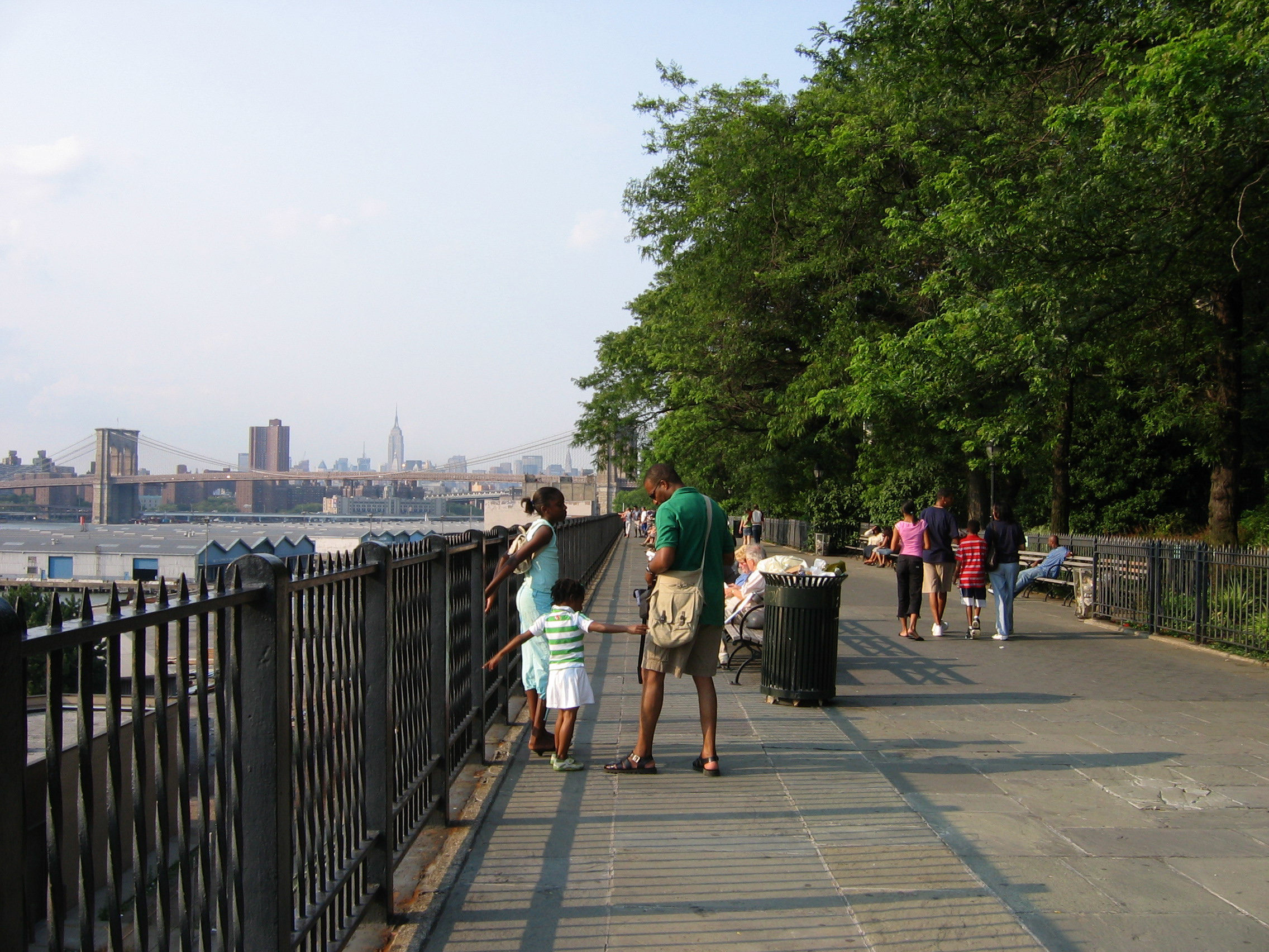 Brooklyn Heights Promenade